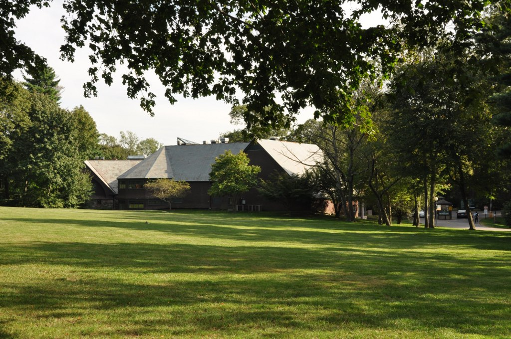 View of the Roughwood estate, now the campus of Pine Manor College in Brookline, Massachusetts.